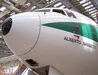 Alitalia Boeing 767 "Alberto Nassetti"